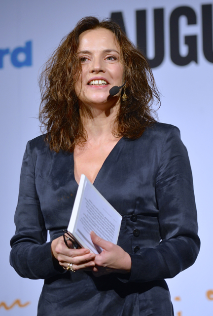 Amanda Ooms leads the nomination presentation of the August Prize at Nalen in Stockholm October 20, 2014.